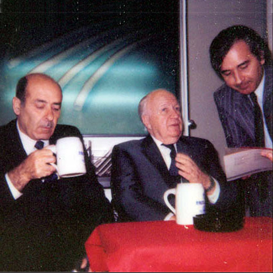 Alexander Mikaelyan